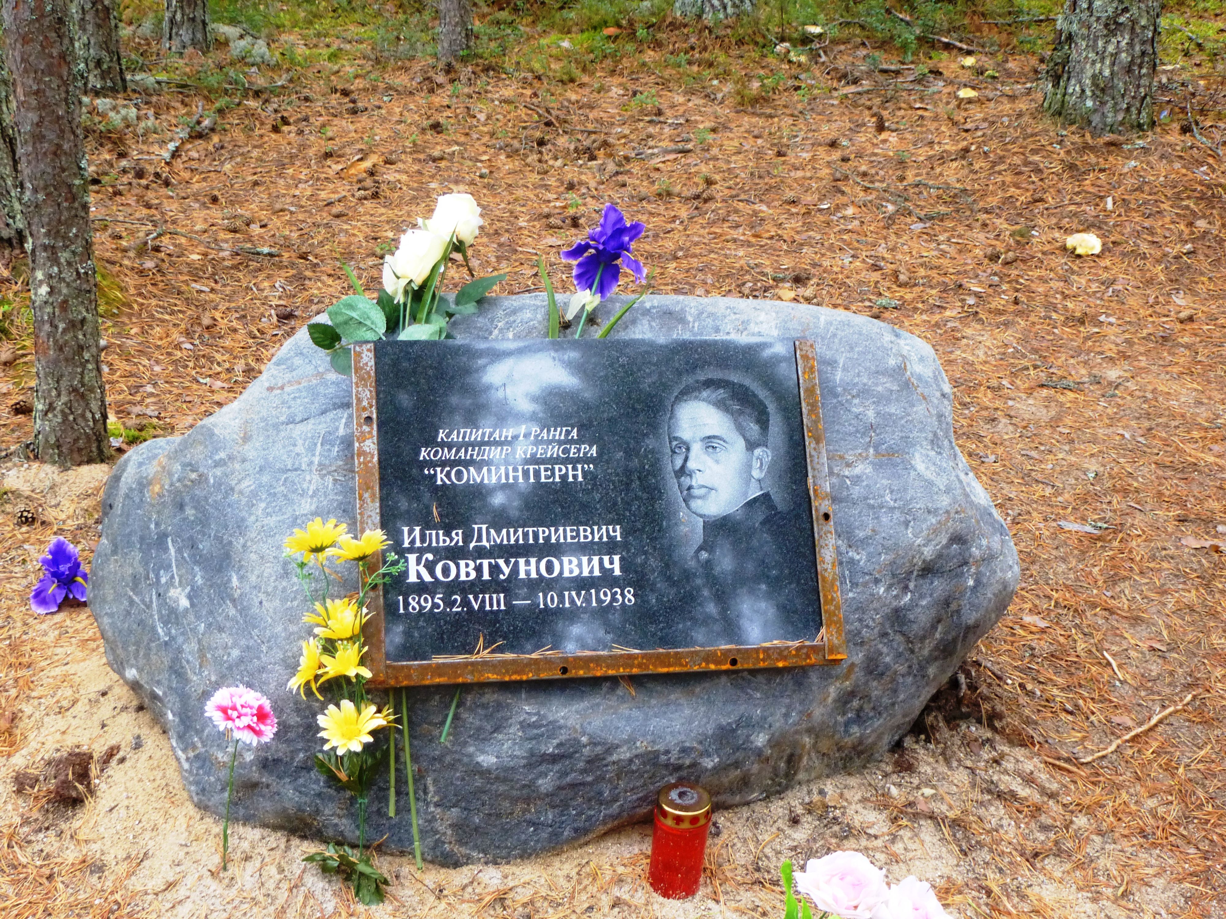 The inscription on the plaque: Captain commander of the cruiser "Comintern" Ilya Dmitrievich Kovtunovich 1895.2.VIII-10.IV.1938 The site of execution and burial of victims of the Great Purge in Sandarmokh, forest massif near Medvezhyegorsk in the Republic of Karelia, Russia.